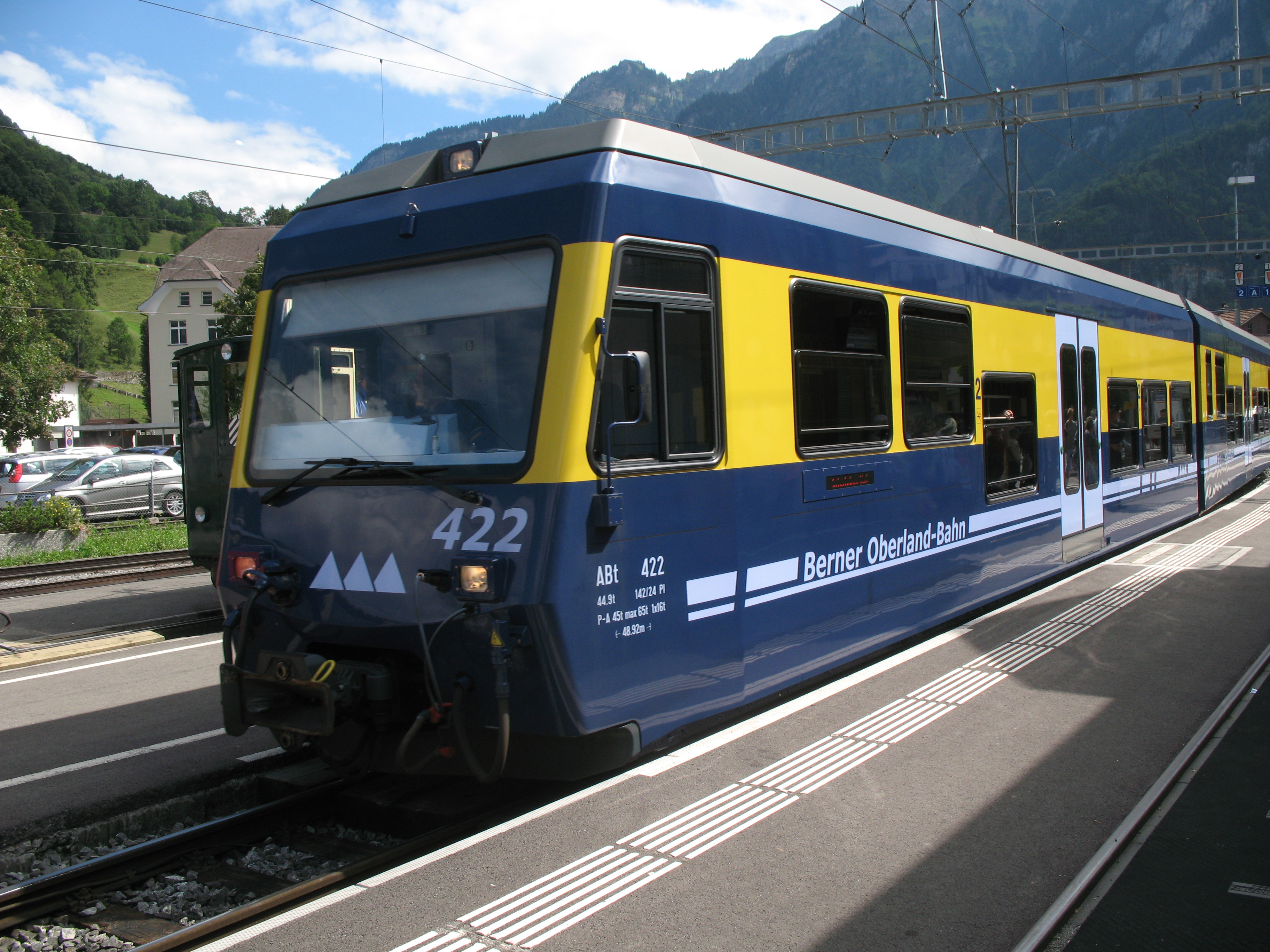 BOB cab car, Wilderswil, Switzerland